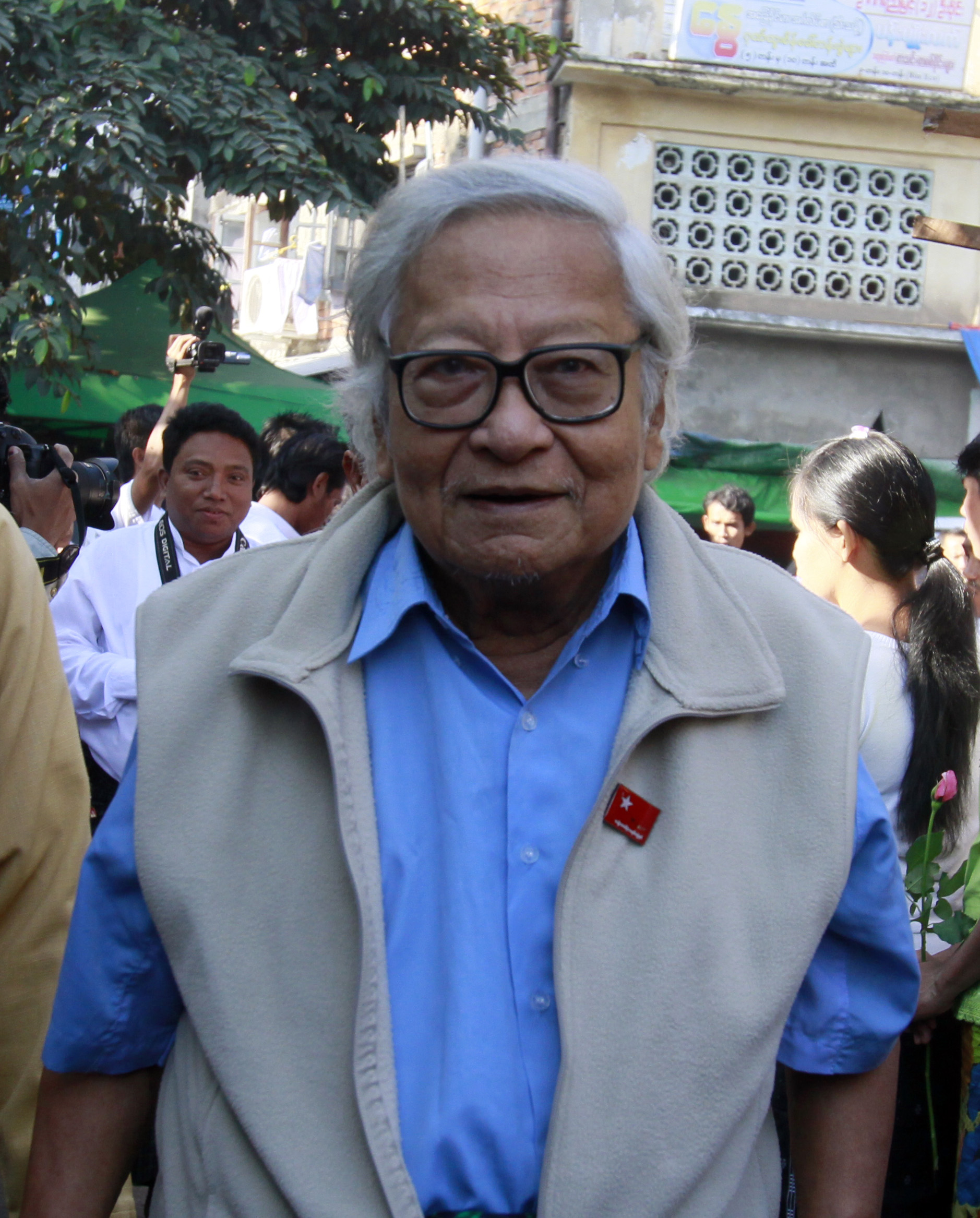 Win Tin, senior member of National League for Democracy Party (NLD) and writer, arrives to attend a ceremony in Yangon, Myanmar, 18 January 2012. မြန်မာဘာသာ: အမျိုးသား ဒီမိုကရေစီအဖွဲ့ချုပ် အဖွဲ့ဝင် နင့် စာရေးဆရာ ဟံသာဝတီ ဦးဝင်းတင် ရန်ကုန်မြို့ရှိ အခမ်းအနားတစ်ခုသို့ ဇန်နဝါရီလ ၁၈ ရက်၊ ၂၀၁၂ ခုနှစ်တွင် တက်ရောက်လာစဉ်